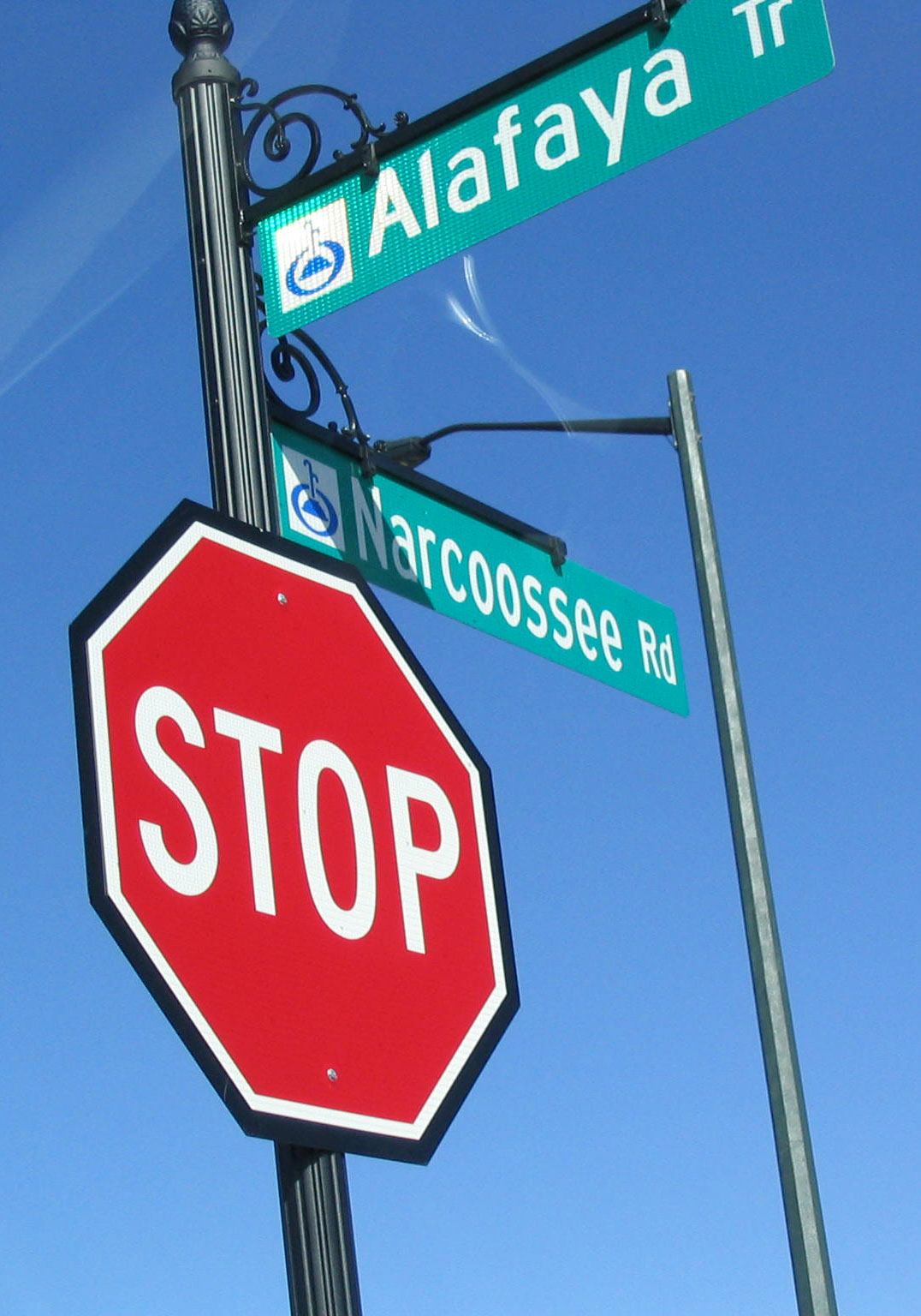 The south end of Alafaya Trail in Orlando, Florida. Currently this section ends after a bit, and is not connected to the main section. Taken March 6, 2005 by user:SPUI.